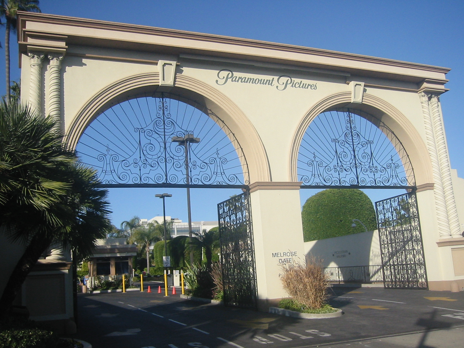 Paramount Pictures in Hollywood, CA